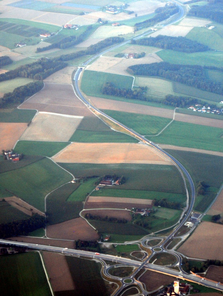 Exit "Enns-West/Steyr" on the highway "West Autobahn" near Enns in Austria, with intersecting primary road "B 309". View directing south